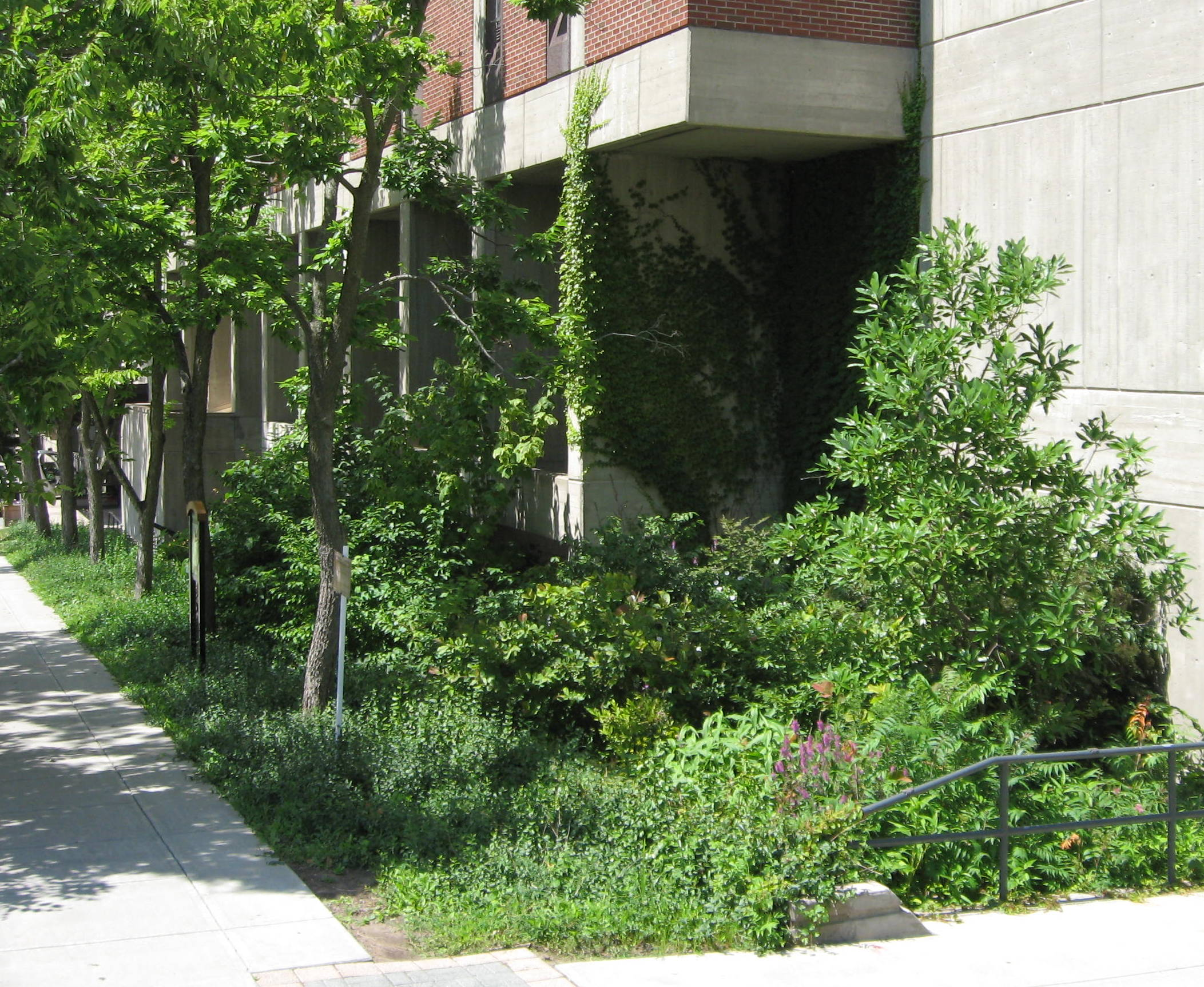 Rain garden, Illick Hall, State University of New York, College of Environmental Science and Forestry (SUNY-ESF), Syracuse, New York